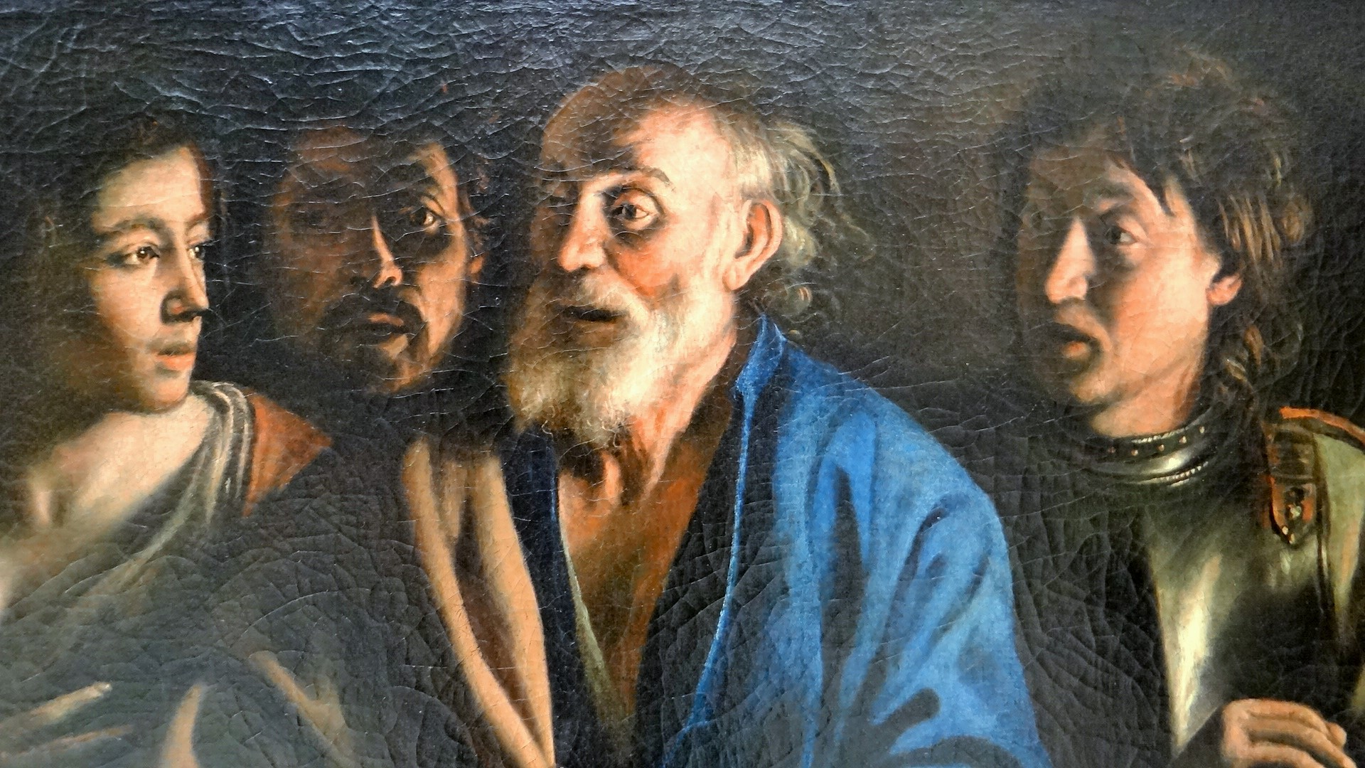 The Denial of Saint Peter, about 1648, Oil on canvas, Mathieu LE NAIN